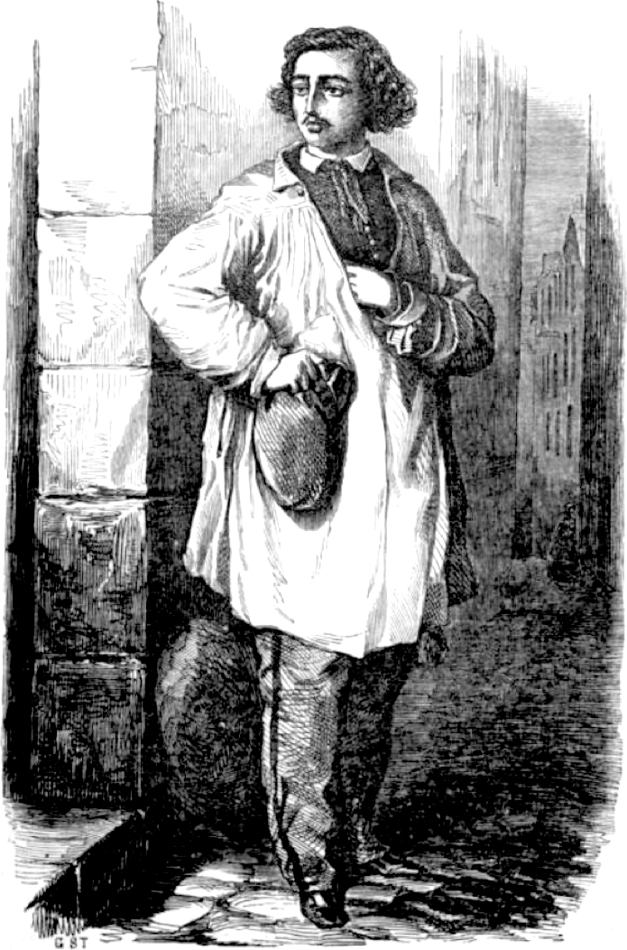 Rodolphe